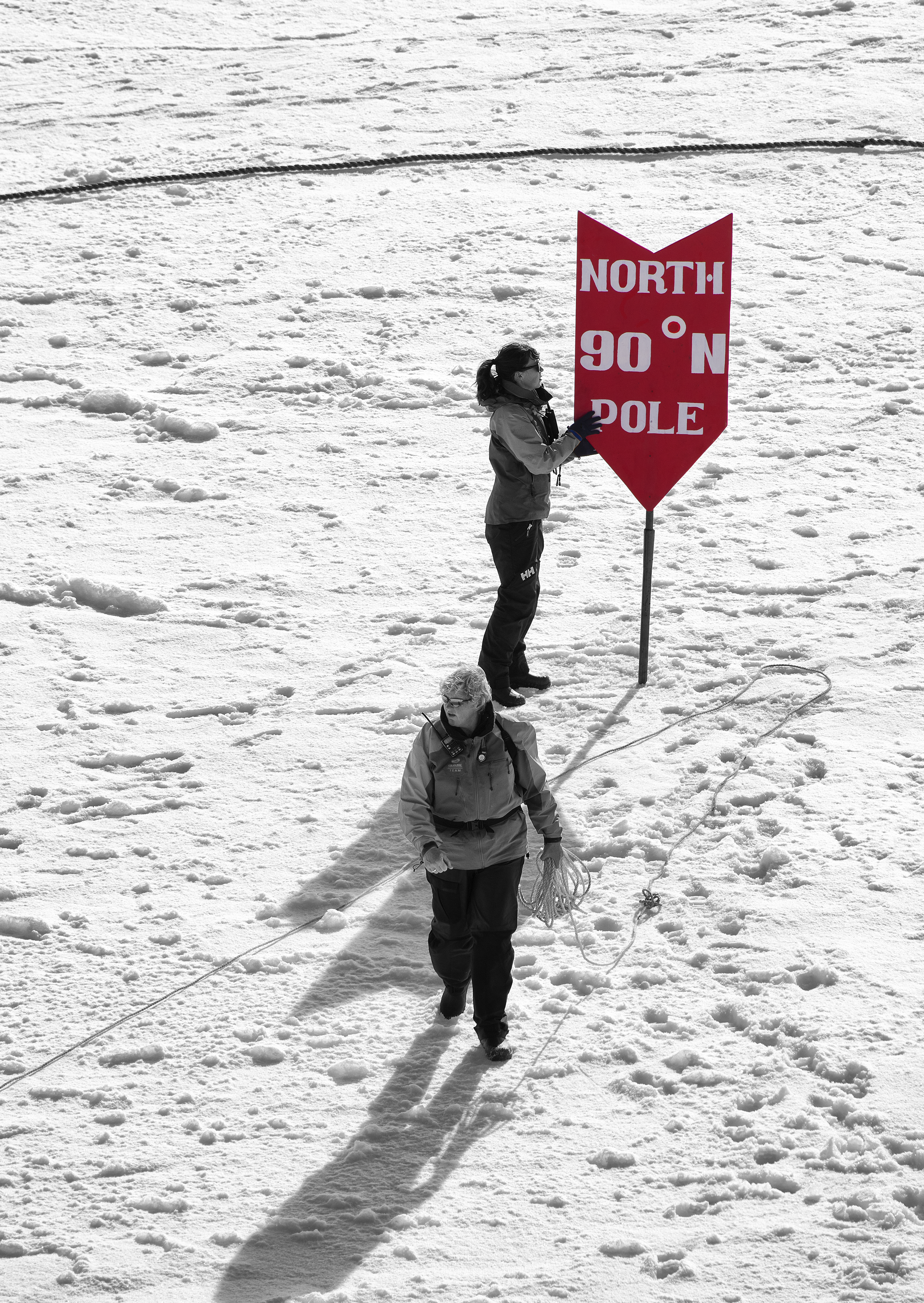 North Pole Keep